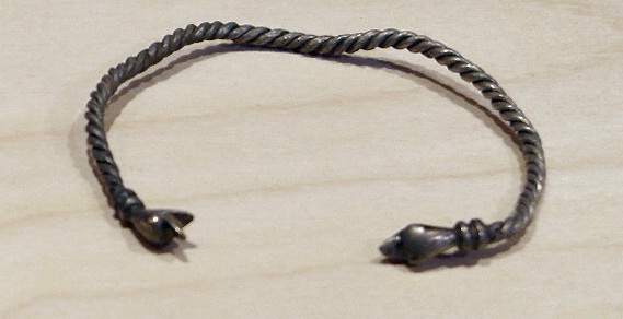 Ancient Roman(?) silver(?) bracelet, excavated in Eijsden, South Limburg, now in the archaeological collection of the Limburgs Museum in Venlo, the Netherlands.